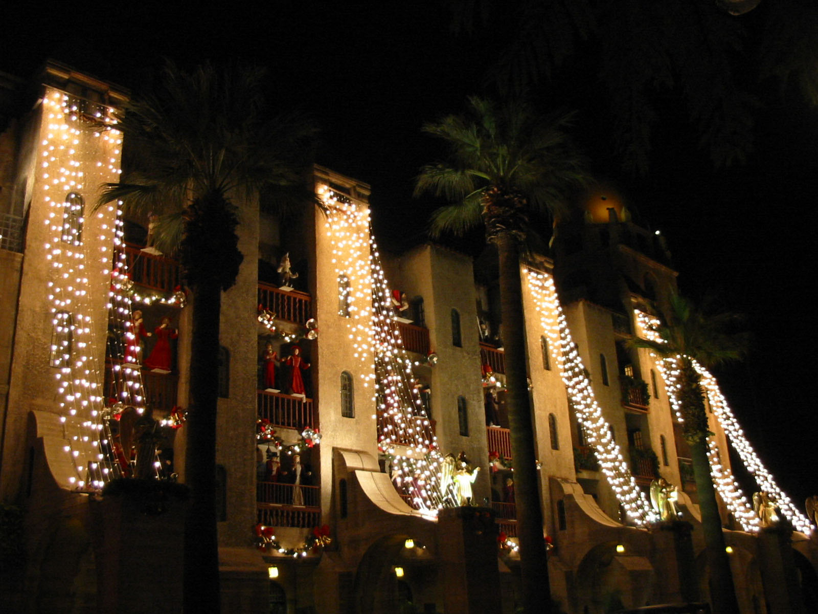 Mission Inn, Festival of Lights display as seen along Orange Street. Riverside, California.